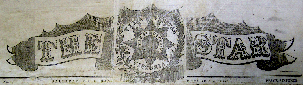 This is a unique banner which was not known until discovered in 2011 in the Australiana Research Room, Ballarat Library.